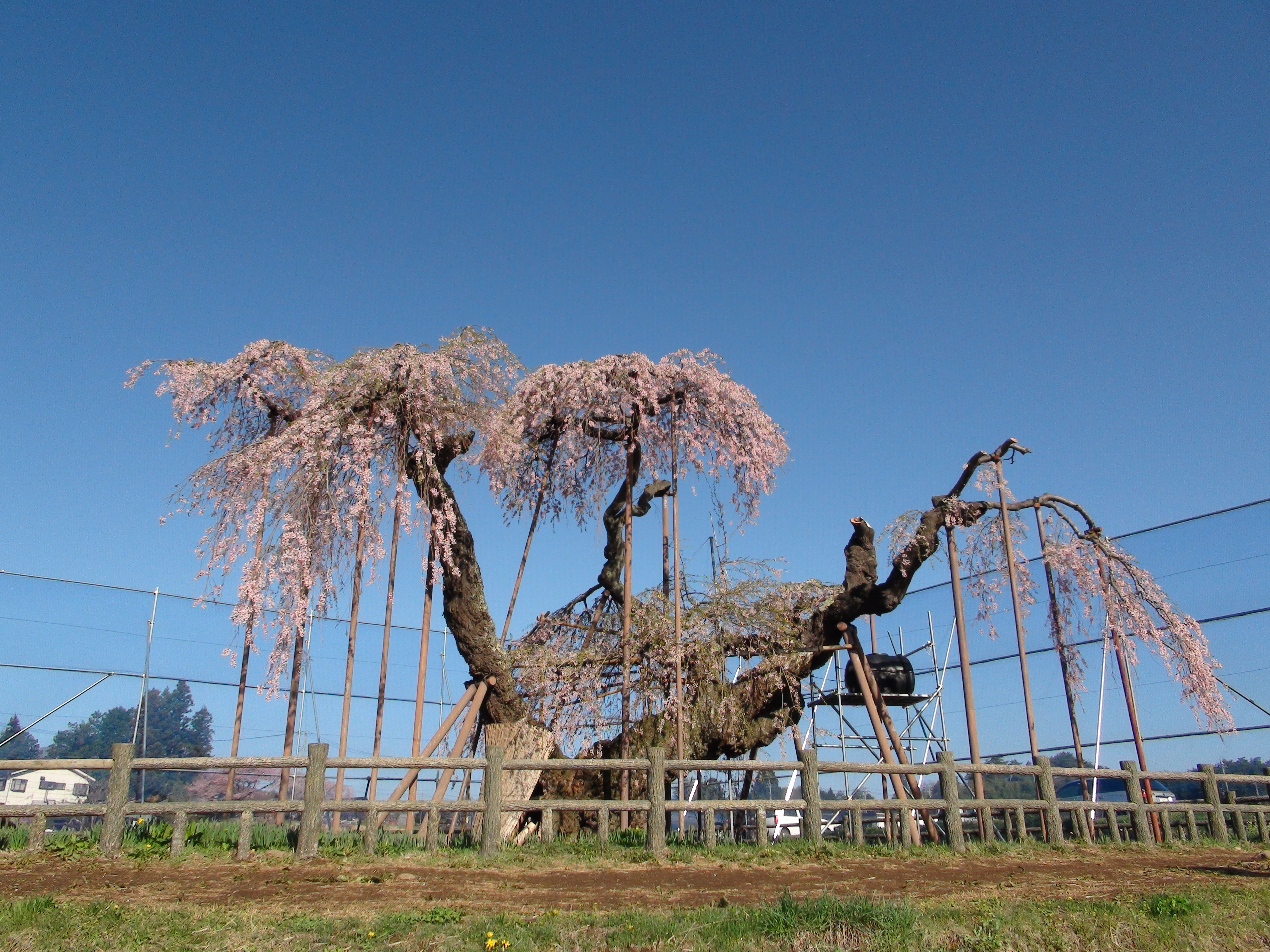 Shinden-no Oitozakura